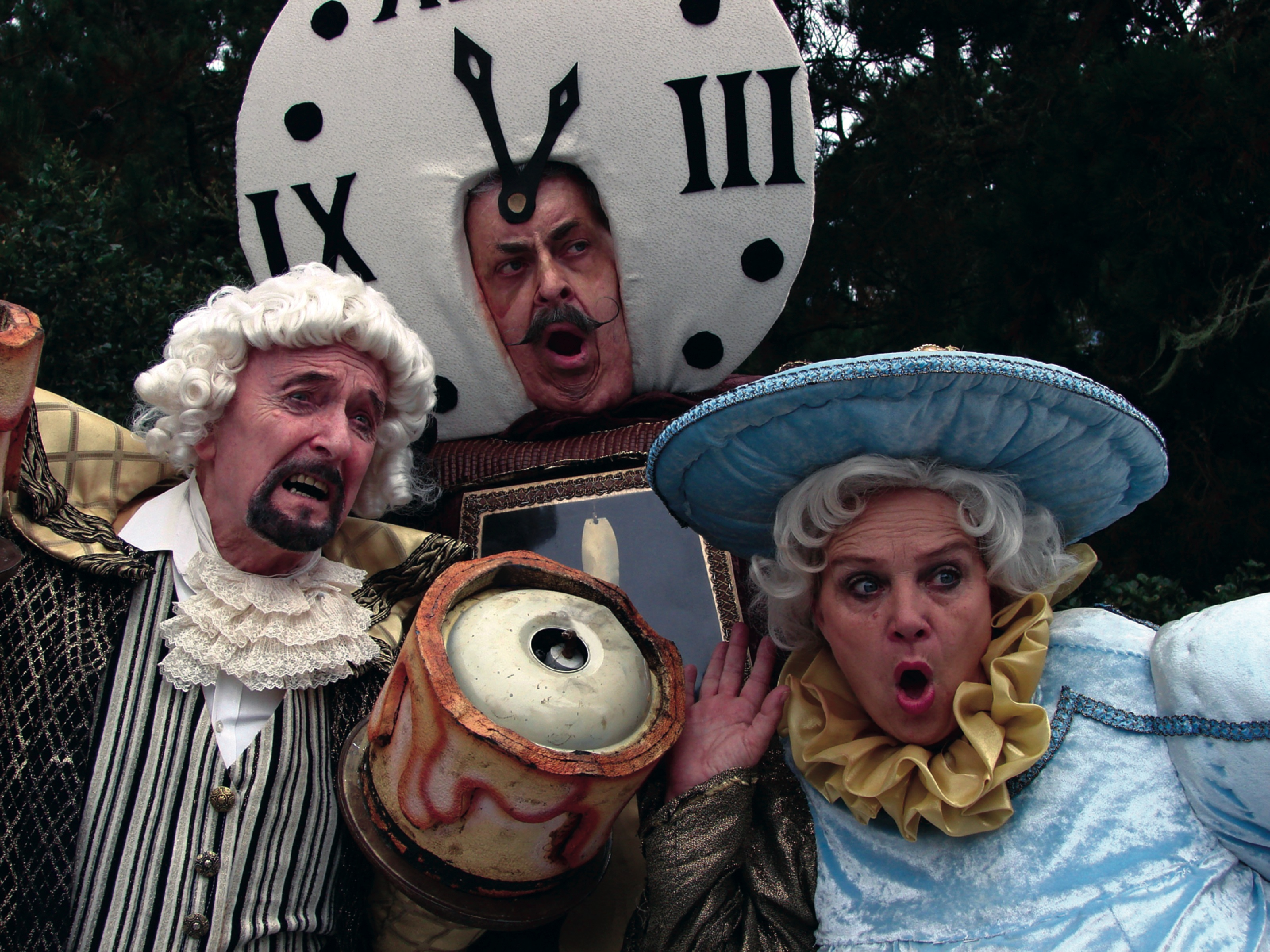 Production shot from Pacific Repertory Theatre's presentation of Disney's "Beauty and the Beast" at the outdoor Forest Theater, 2006